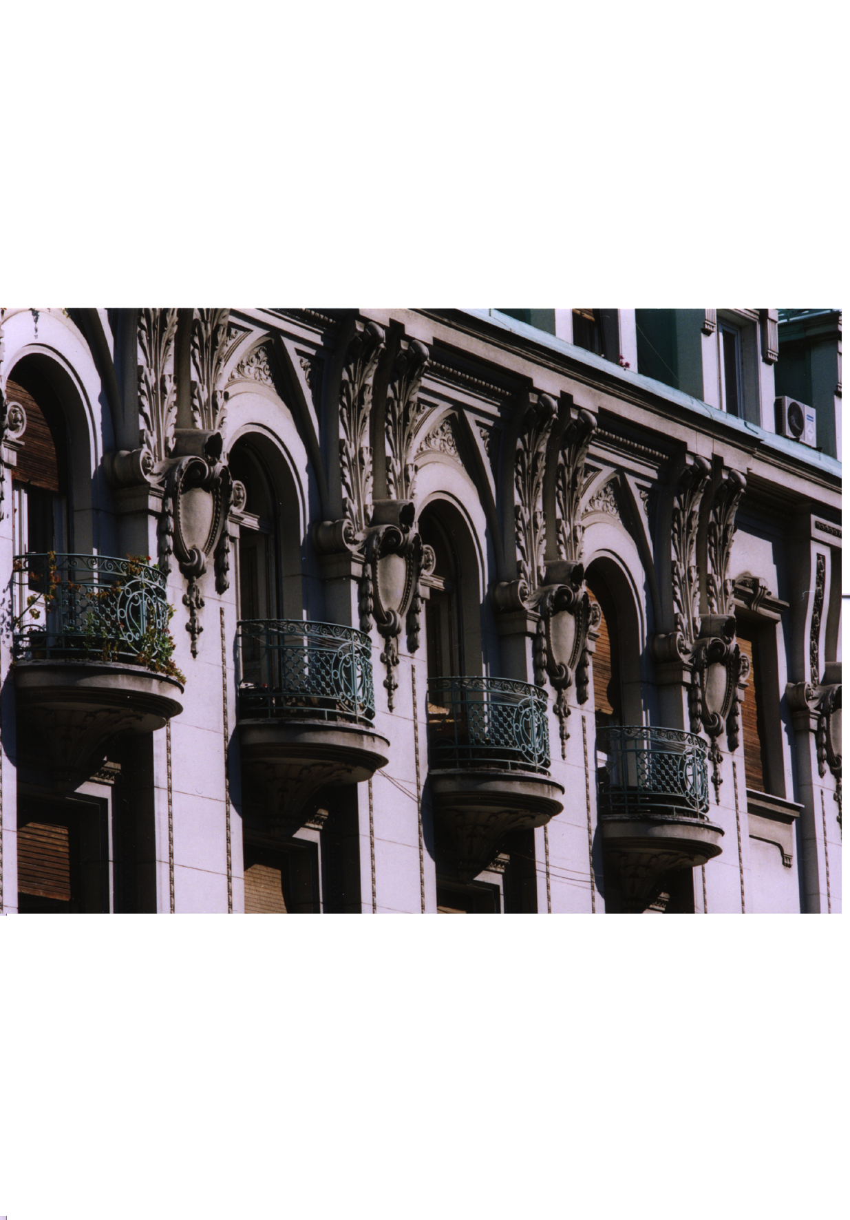 Russian Tsar Restaurant in Belgrade, dated circa 1925